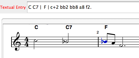 Created by Robert Keller, placed in the public domain.